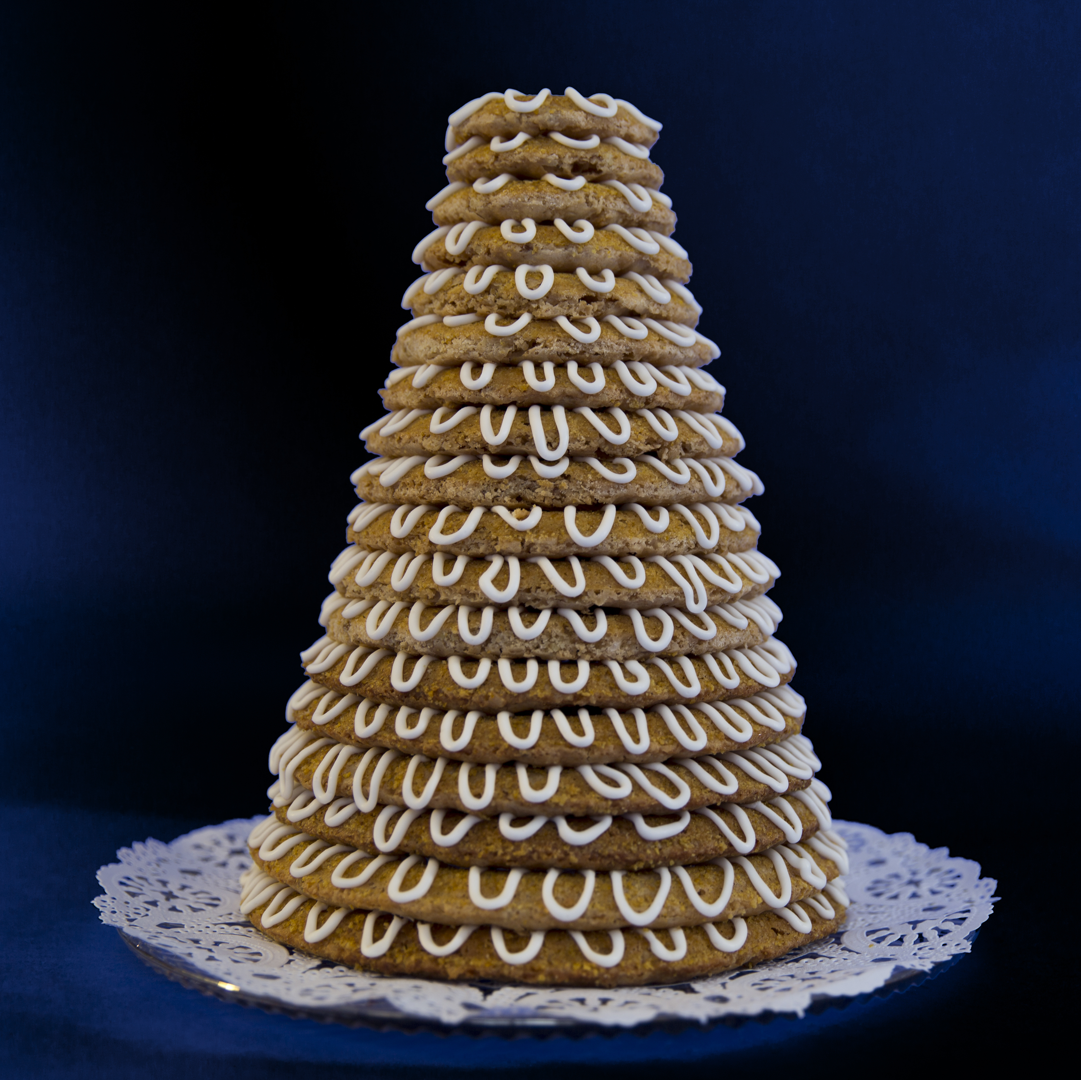 The kransekage (wreath cake) is a traditional Danish (kransekage) and Norwegian (kransekake/tårnkake (tower cake). An 18 layer wedding cake. Both the bride and groom hold onto the top layer and remove it; the number of layers that sticks onto it are supposed to predict how many children they'll have.